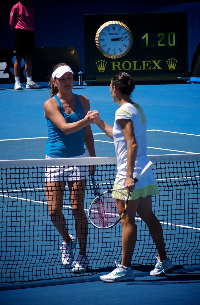 Francesca Schiavone defeats Agnieszka Radwanska at the Australian Open 2010